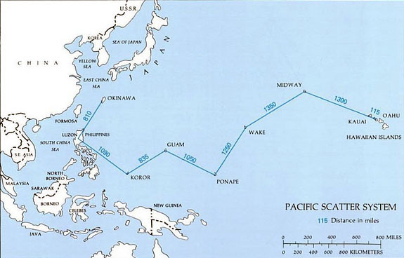 Pacific Scatter System, a multilink microwave troposcatter communication system built by the US to transmit telephone calls between the far east and the Hawaiian Islands.